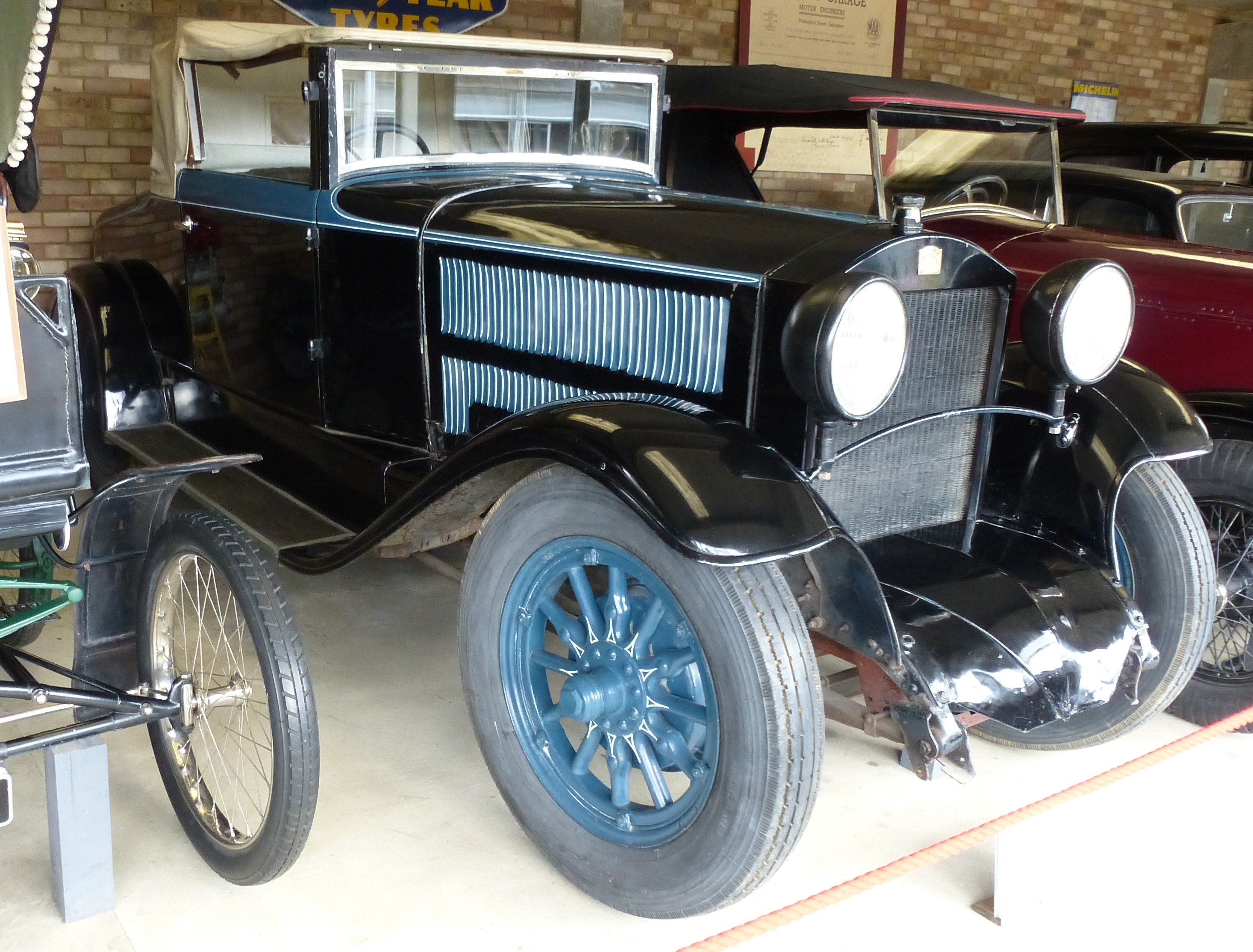 American Steam Car 1935